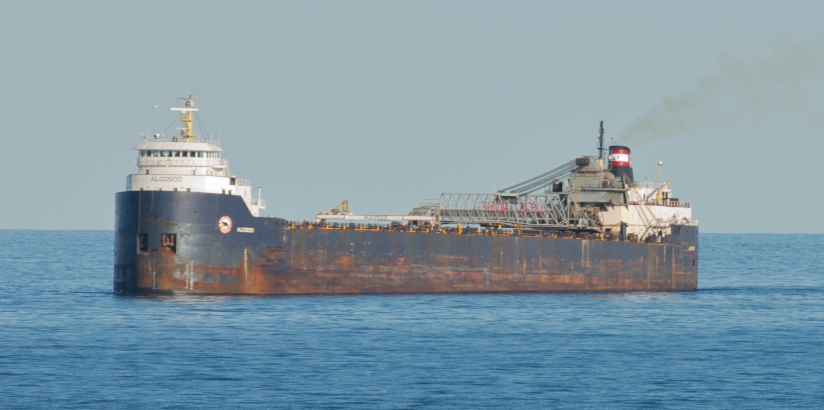 This photo was from my camping trip last fall in Two Harbors. I'm not sure why I never posted it. This is the MV Algosoo, a self unloading bulk carrier approaching Silver Bay to take on a load of taconite. The Algosoo was the last traditionally styled (forward pilot house) lake freighter built.